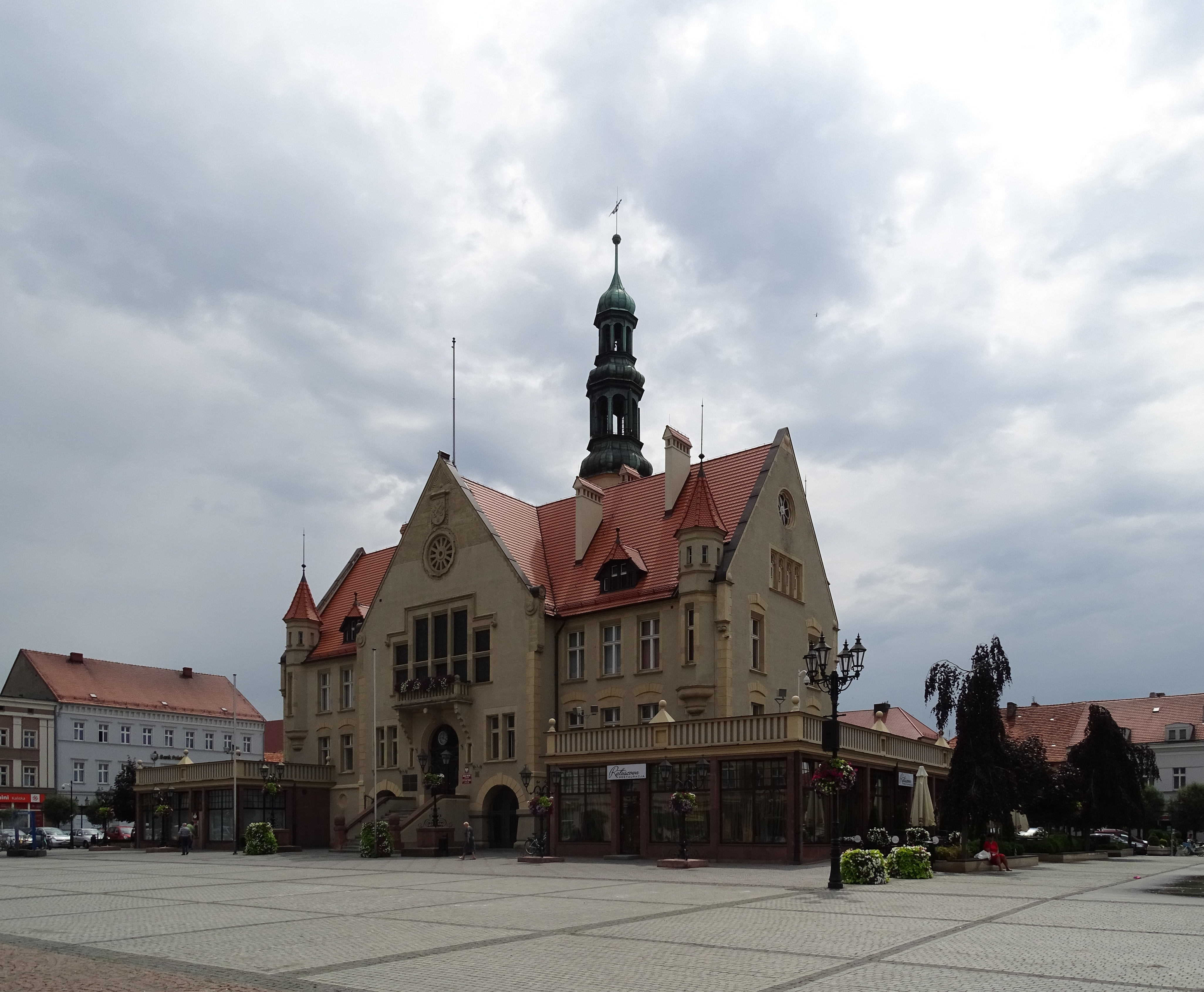 Krotoszyn, Greater Poland, the town hall. Built about 1689, rebuilt 1899.